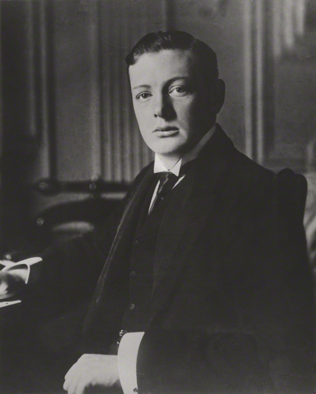 by Elliott & Fry, vintage print, circa 1900